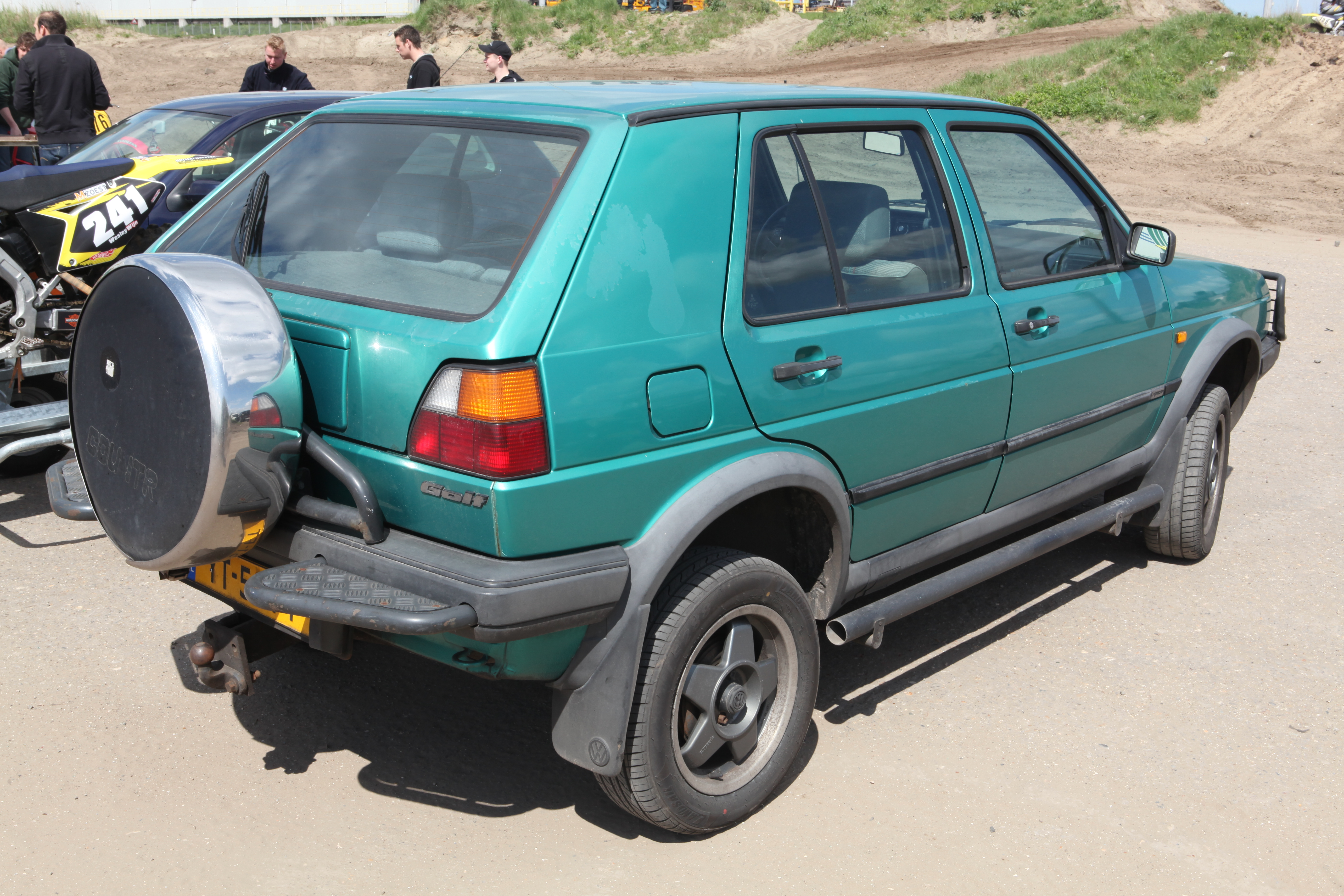 1990 Volkswagen Golf Country 4x4